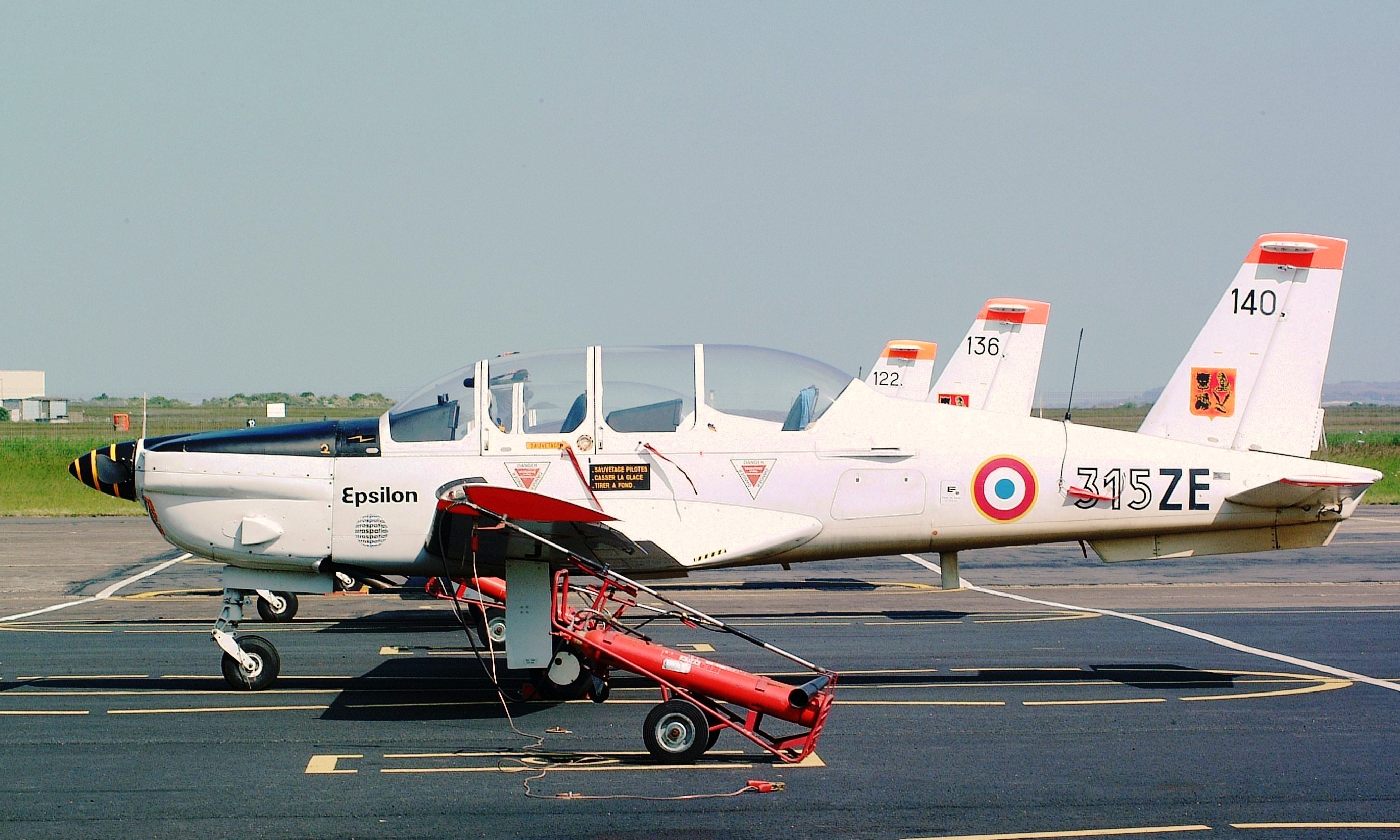 The Armee de L'Air, like most other air arms is contracting so a large part of the fleet of these aircrcaft is being withdrawn. Taken at its home base airshow in 2004.